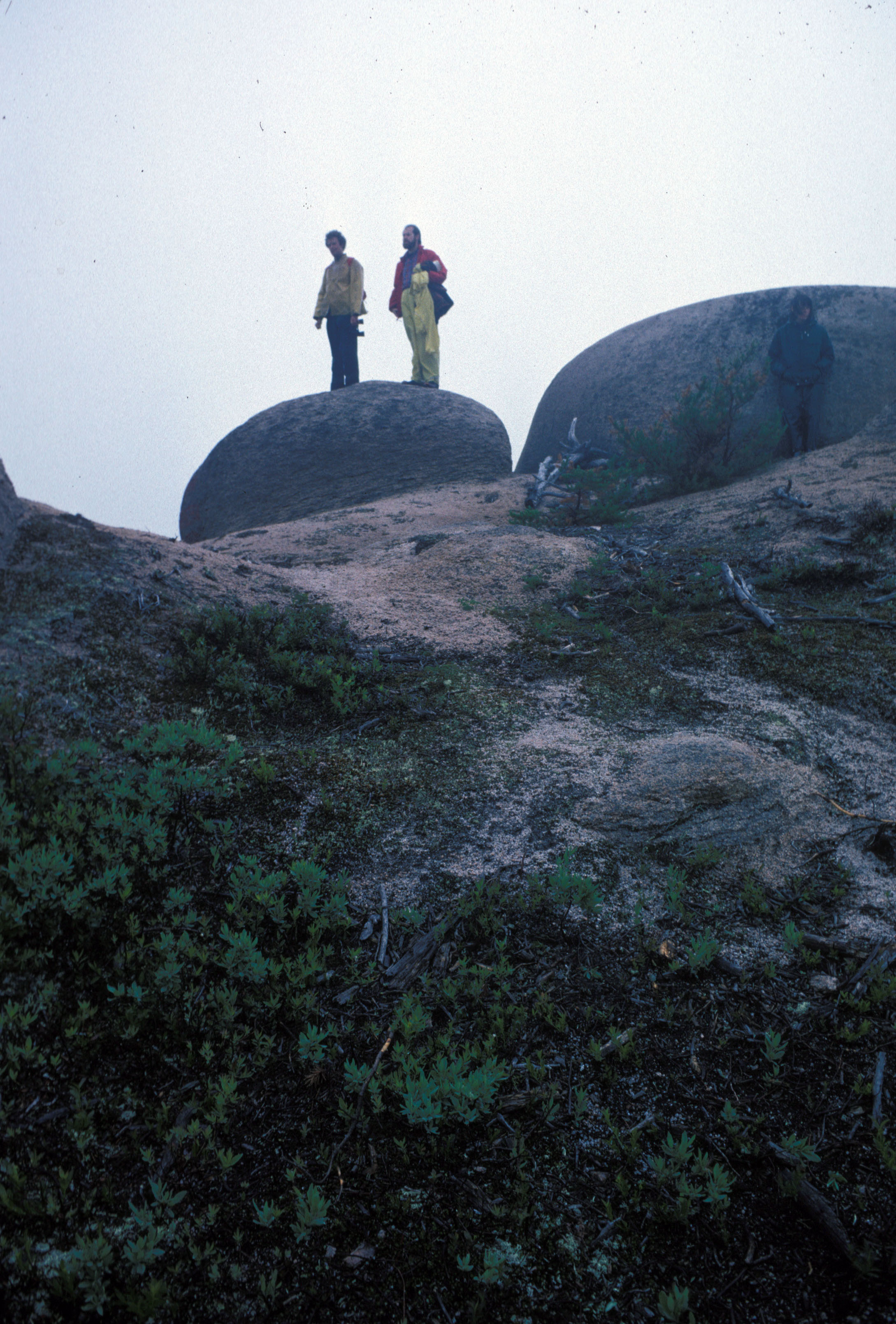 Tors on Colonels Mountain, New Brunswick, Canada (IR Walker 1986).